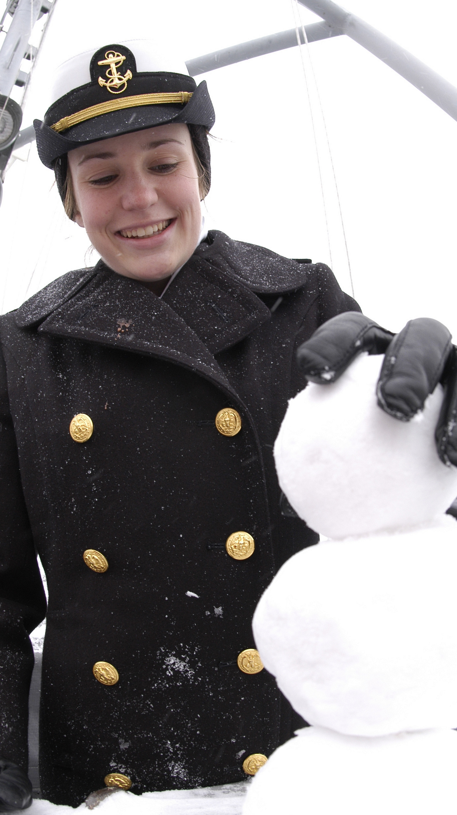 Midshipman 4th Class Christa Stowe, from Daytona Beach, Fla., makes the first snowman of her life, aboard Yard Patrol Craft 698 at Coast Guard Station Philadelphia. The ship and crew are one of three Yard Patrol Crafts to make the transit from the Naval Academy in Annapolis, Md., to Philadelphia for the 104th playing of the Army Navy game.